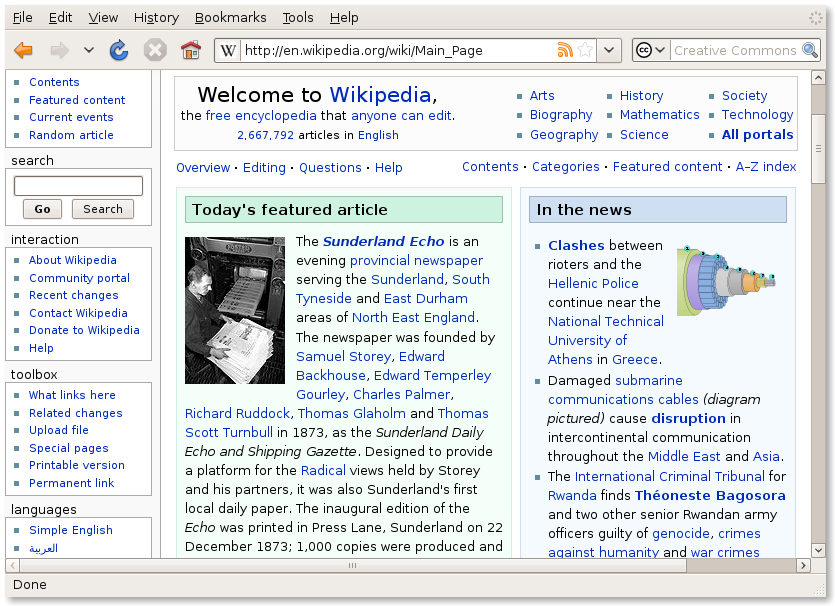 Mozilla Firefox version 3 displaying the Wikipedia Main Page